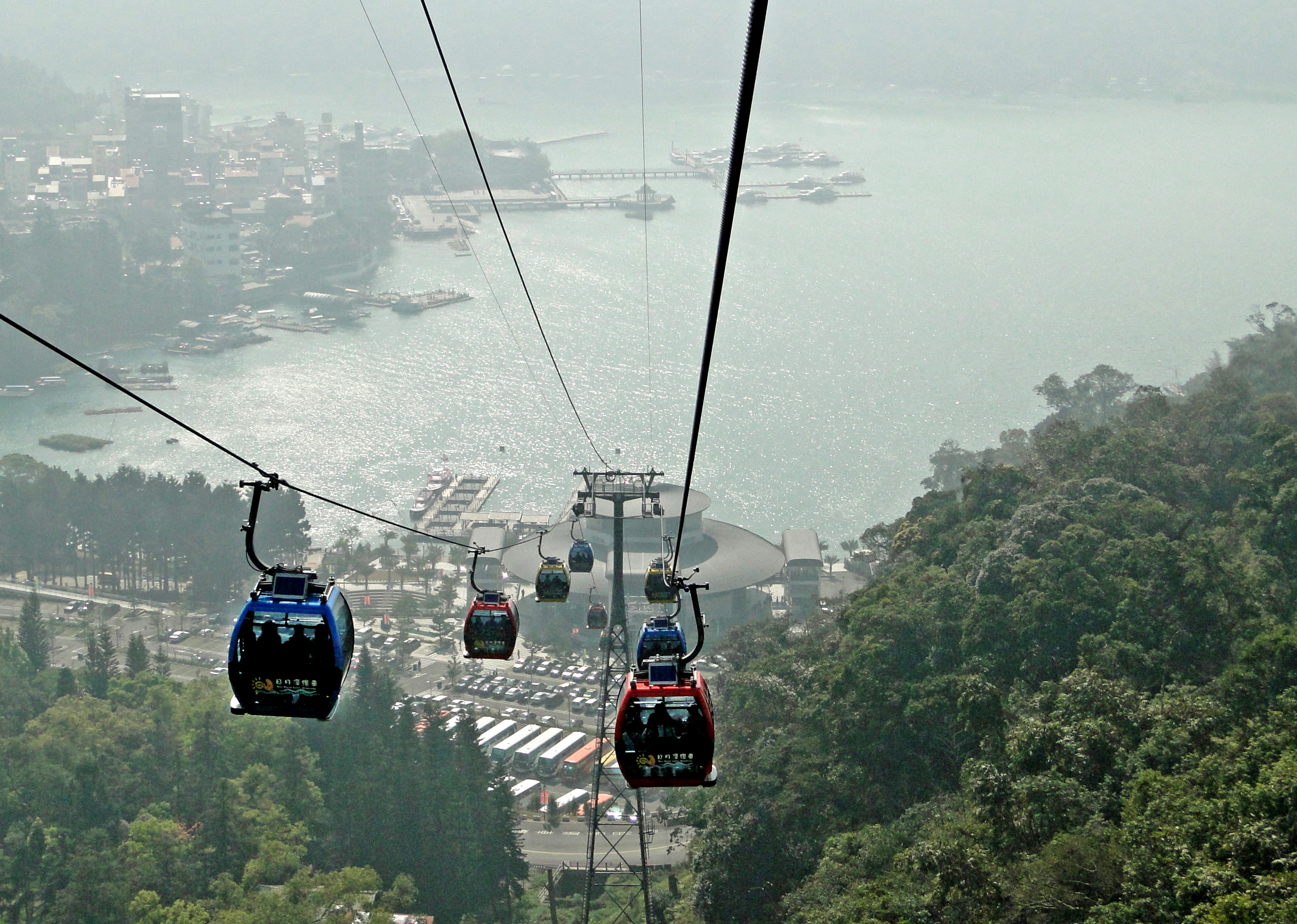 Sun Moon Lake Ropeway, Taiwan